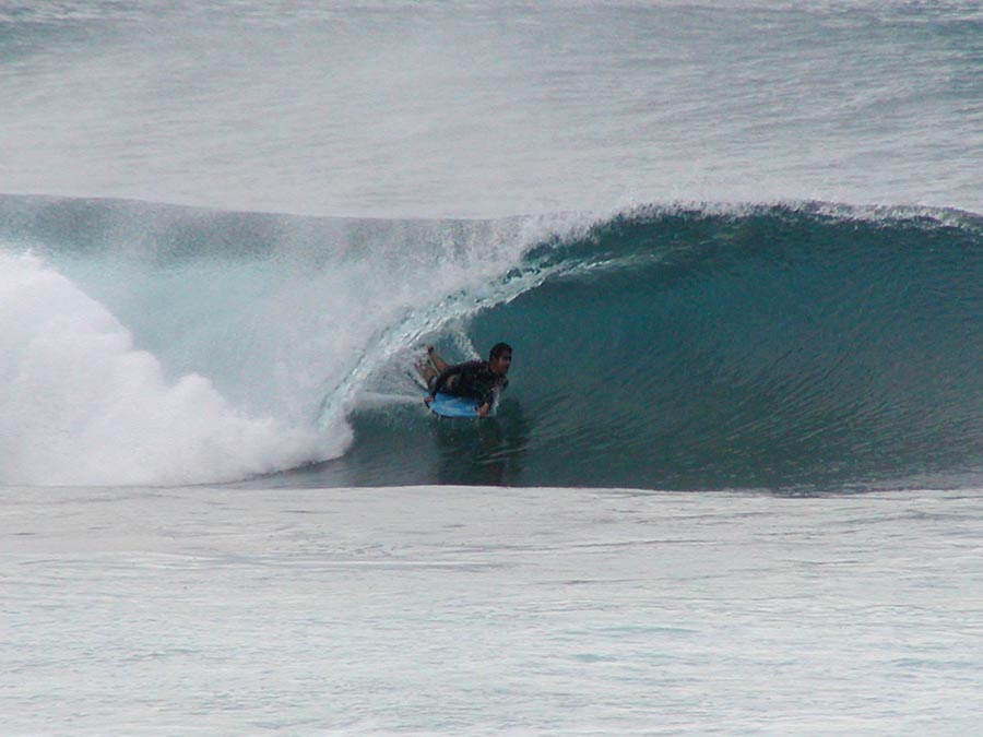 Oahu North Shore surfer in the tube